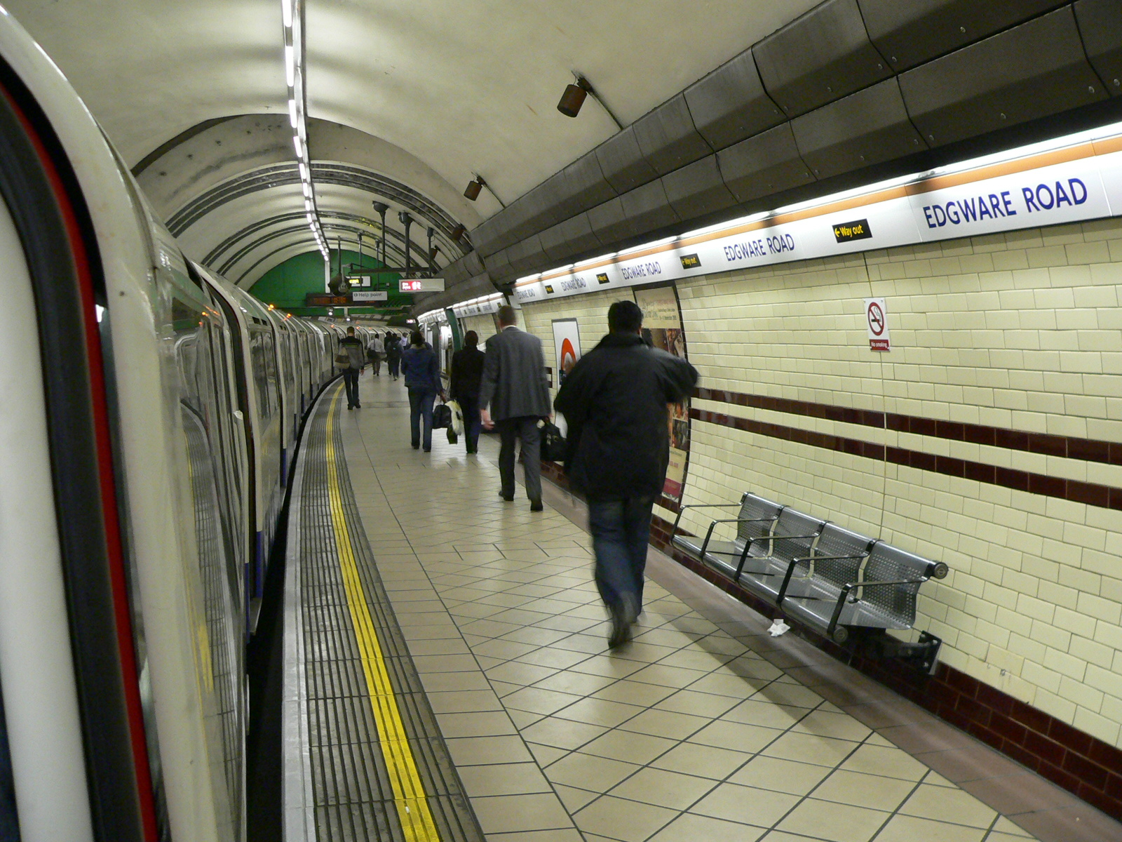 The northbound platfrom at the Edware Road (Bakerloo Line) station on 24 October 2005, viewed from the front-most passenger doorway of a 1972 tube stock train.